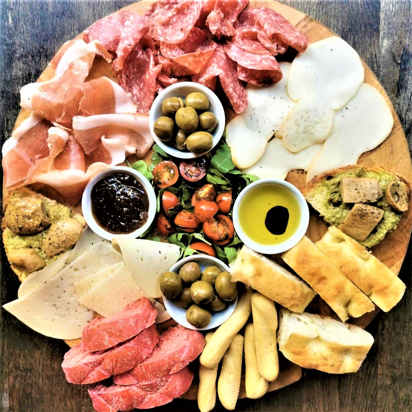 Veeno grande Board